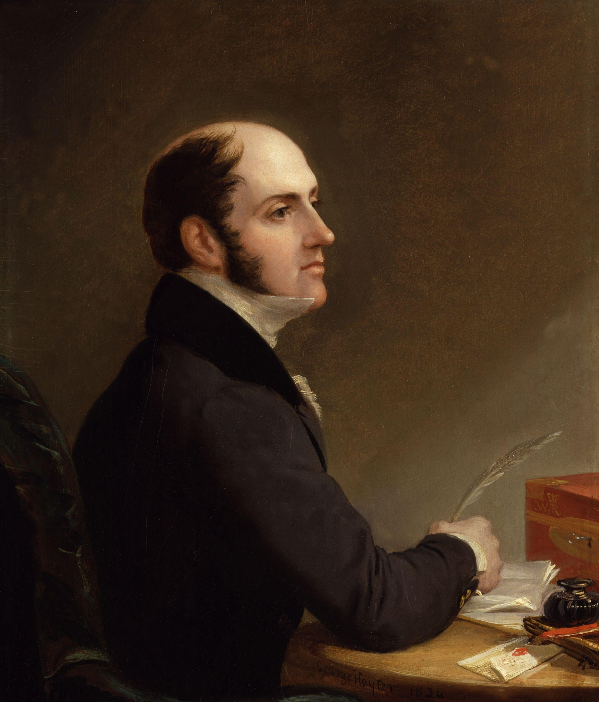 Edward John Littleton, 1st Baron Hatherton, by Sir George Hayter (died 1871). All images in this batch have been confirmed as author died before 1939 according to the official death date listed by the NPG.